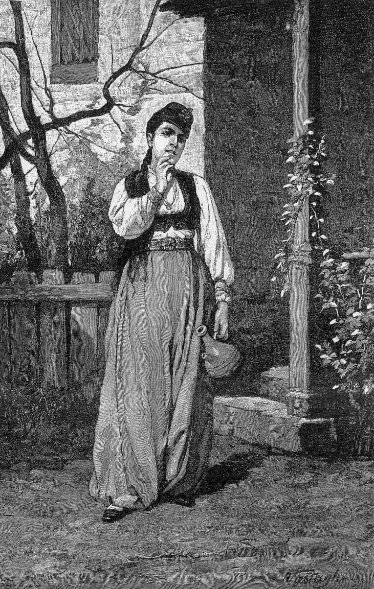 Bosnian woman (Bosanka), by G. Vastagh (Đorđe Vaštag). Copy from Nova iskra 20-21 (1899).